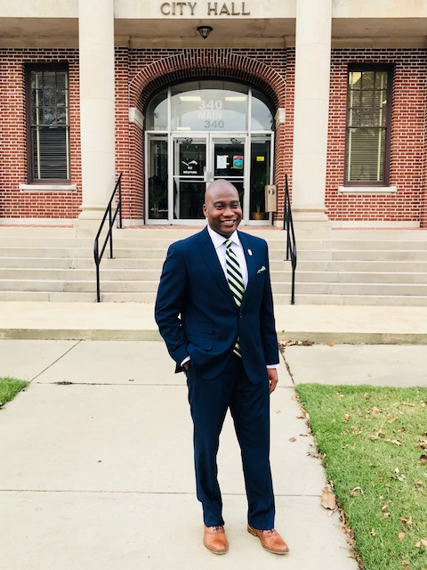 Mayor